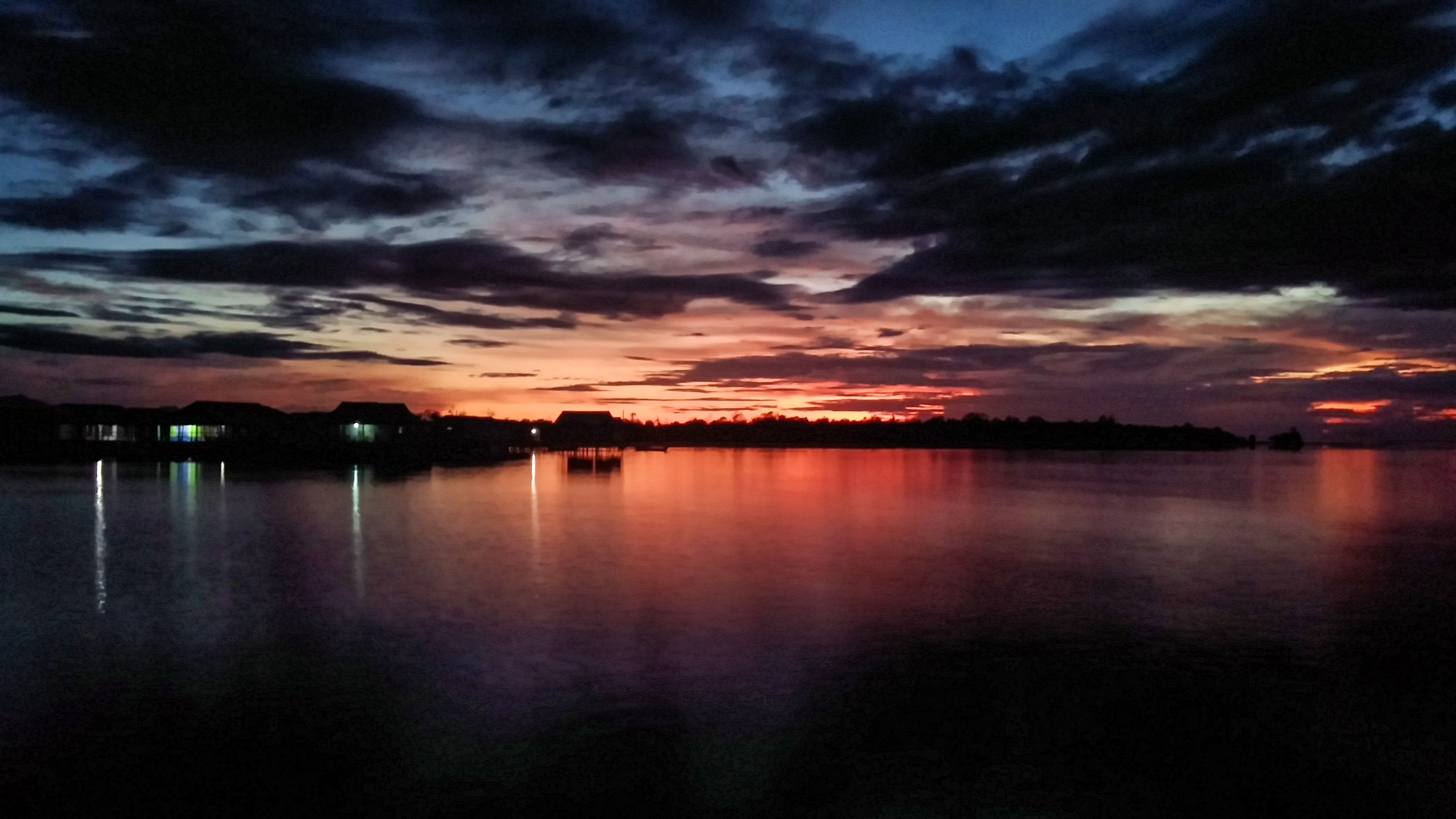 Torosiaje is one of the floating villages in Indonesia, the people who live there are called the Bajo tribe. In this village, they are living in elevated houses above the sea water.